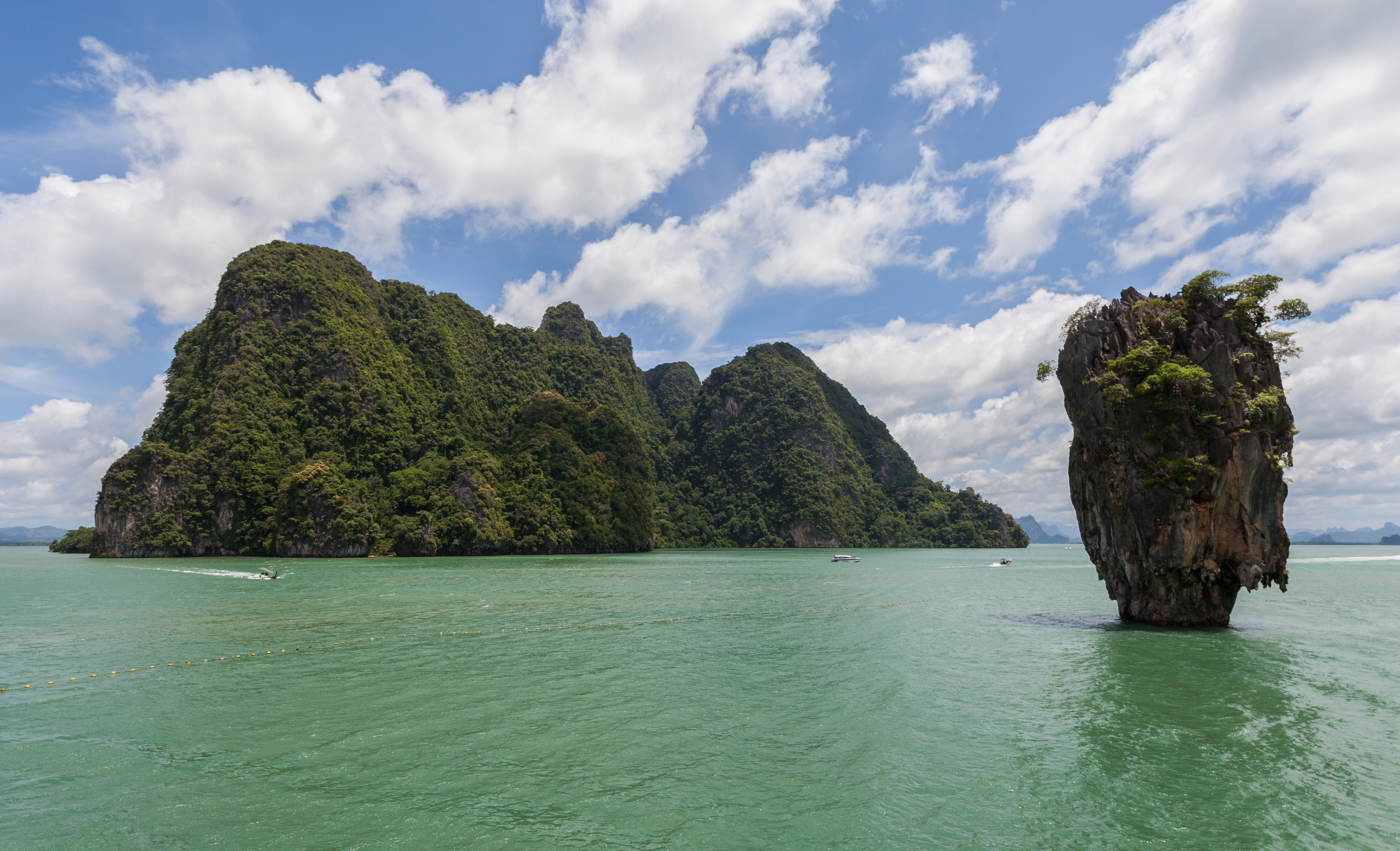 Tapu Island, Phuket, Thailand